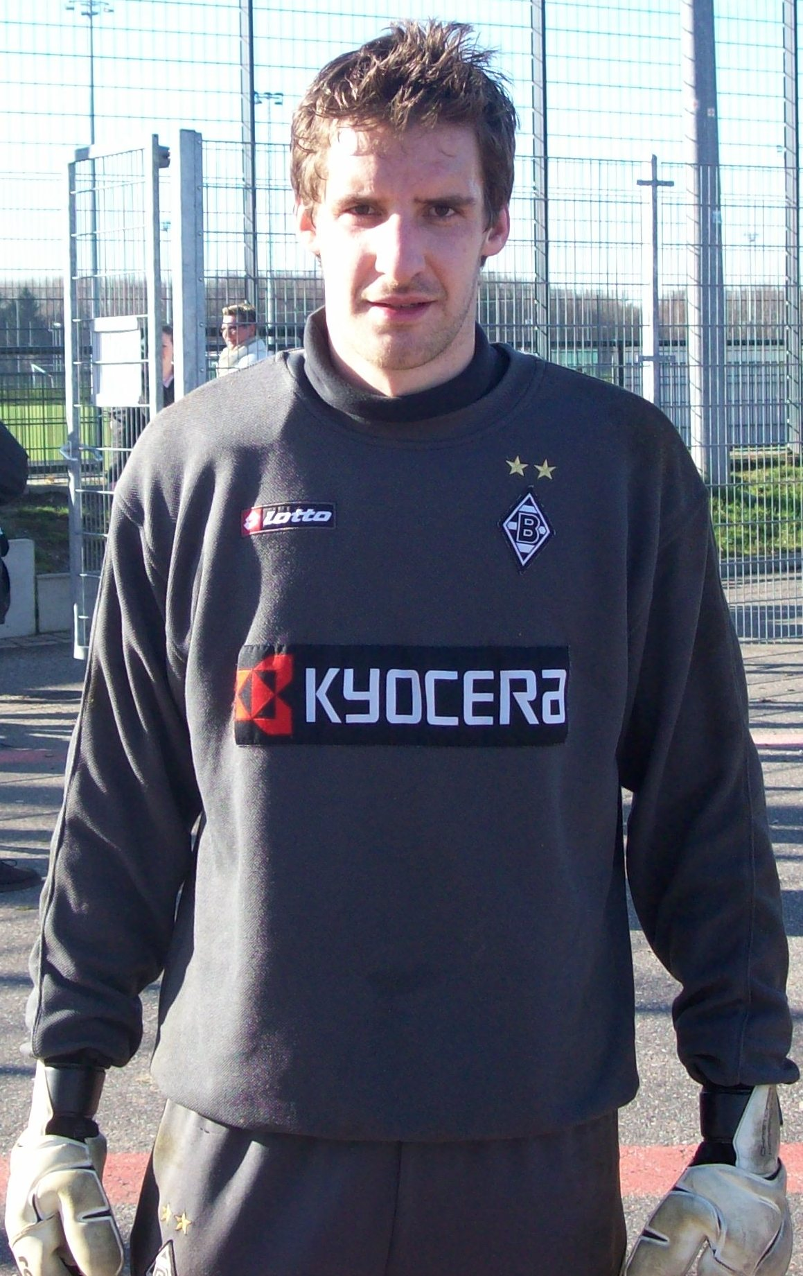 Christopher Heimeroth